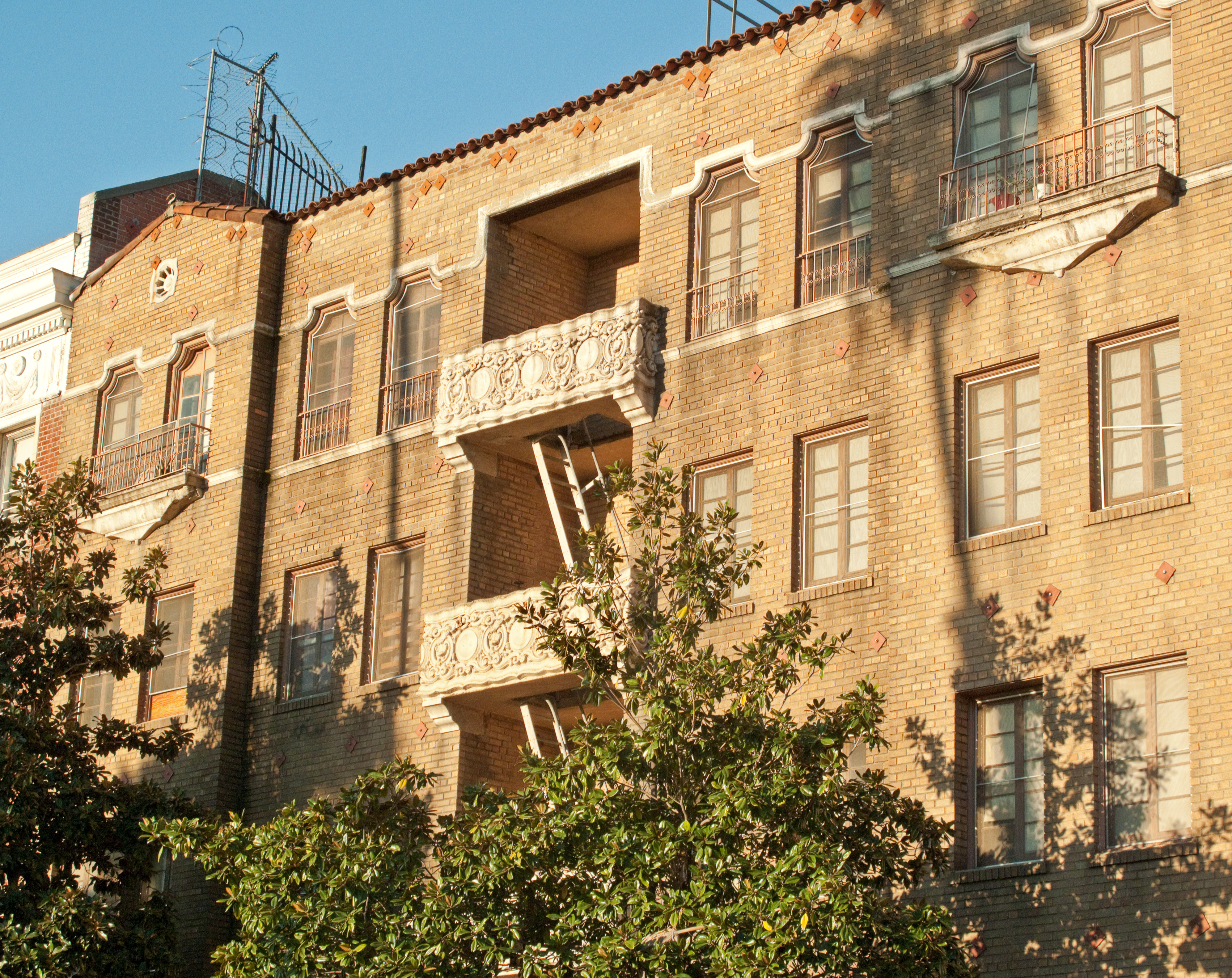 In the American television series "Seinfeld", Jerry's apartment is supposed to be inside the brick building on the right. Only the exterior of the building is shown in the series. In this early morning shot, note the shadow of a Mexican fan palm from across the street on the building. To avoid this shadow, as the building is supposed to be in New York City, the building shots are always in the afternoon or when the sky is cloudy. The building address is 757 S. New Hampshire Avenue, in the Koreatown neighborhood of Los Angeles, California.